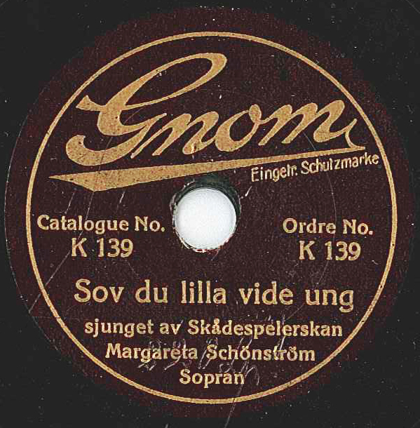 Label of a Swedish issue on the German-produced Gnom record from 1925, featuring the lullaby Sov du lilla vide ung sung by Margareta Schönström.